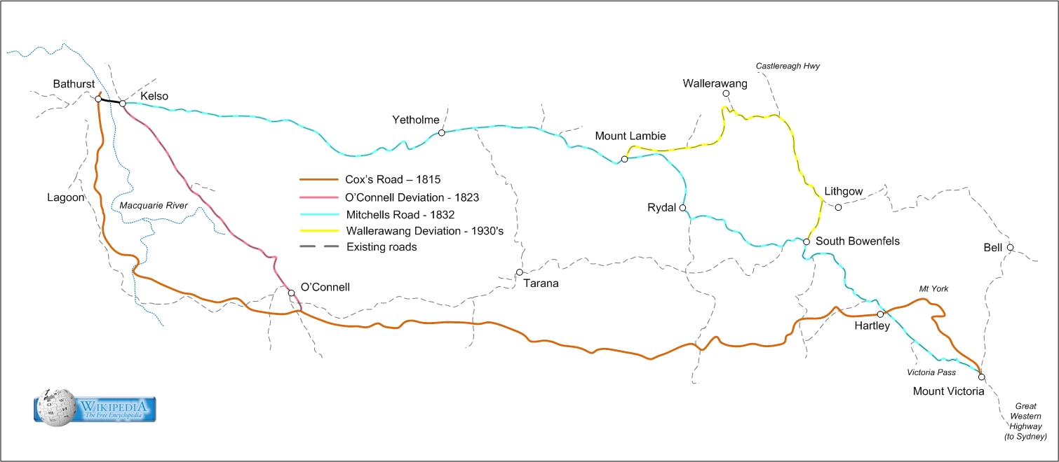 Diagram showing road routes Mount Victoria to Bathurst section of the Sydney to Bathurst Road - Cox's Road 1815, O'Connell Deviation 1823, Mitchell's Road 1832, and Wallerawang Deviation 1930's.